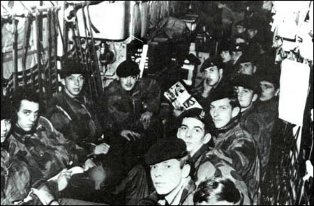 original description: "Belgian Paracommandos en route to Ascension Island"[1]